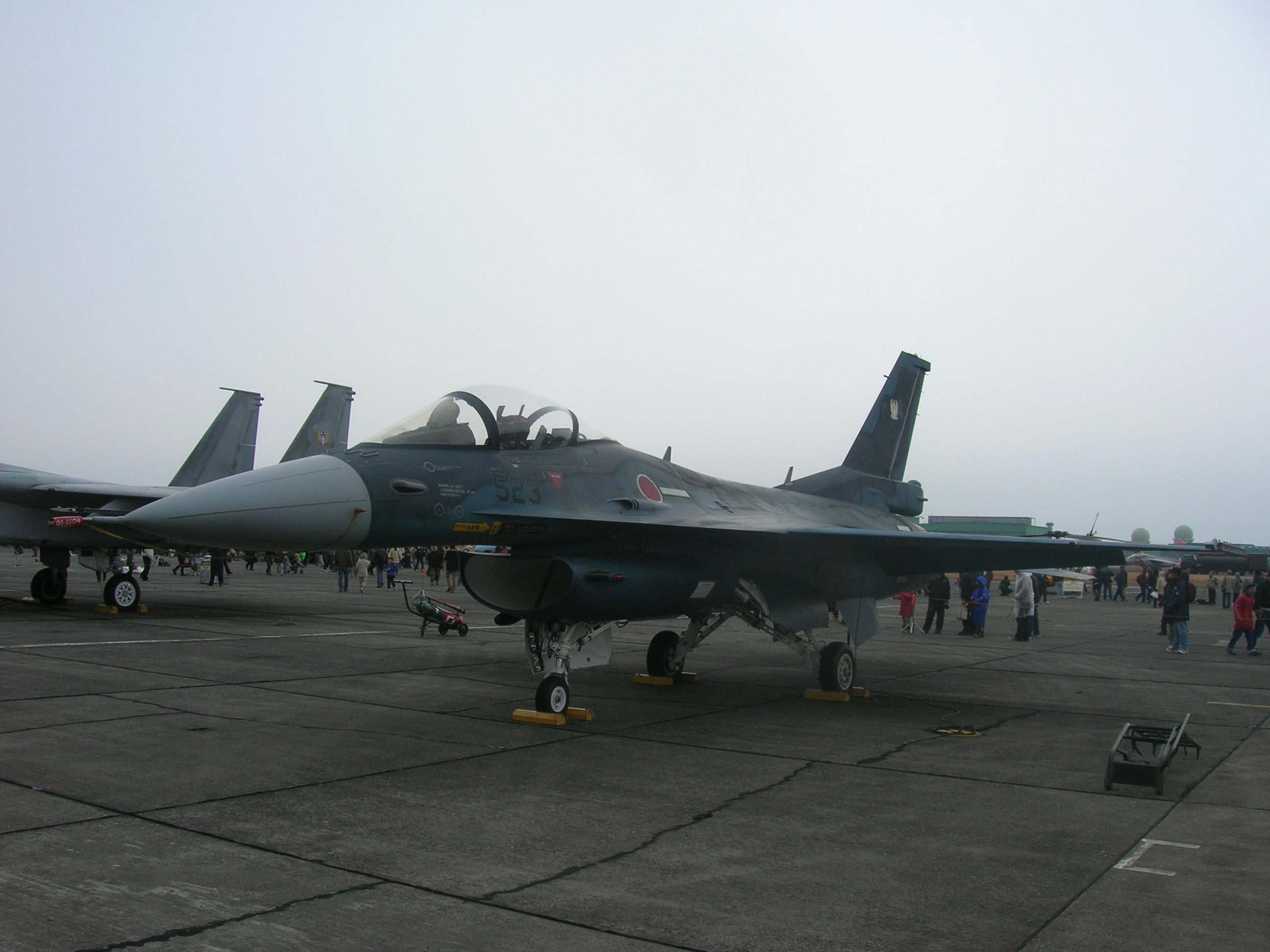 Photo by Yosemite F-2 is Japan Self-Defense Forces Fighter.